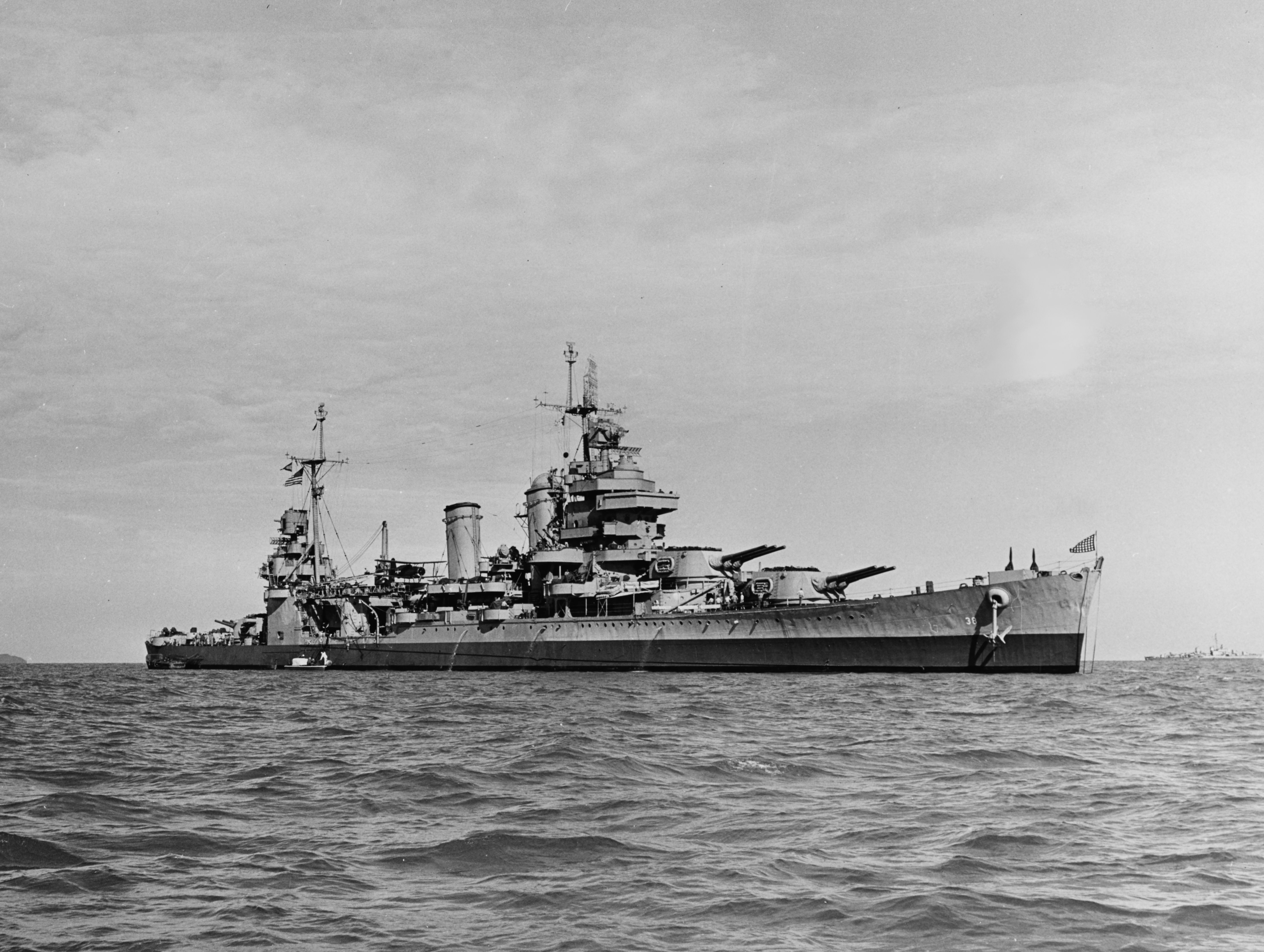 The U.S. Navy heavy cruiser USS San Francisco (CA-38) off the coast of Korea, 28 September 1945. She is flying from her mainmast a U.S. Ensign that flew over the Capitol Building, in Washington, D.C., during the debate of the United Nations Treaty. Note that she still carries Curtiss SOC Seagull seaplanes.